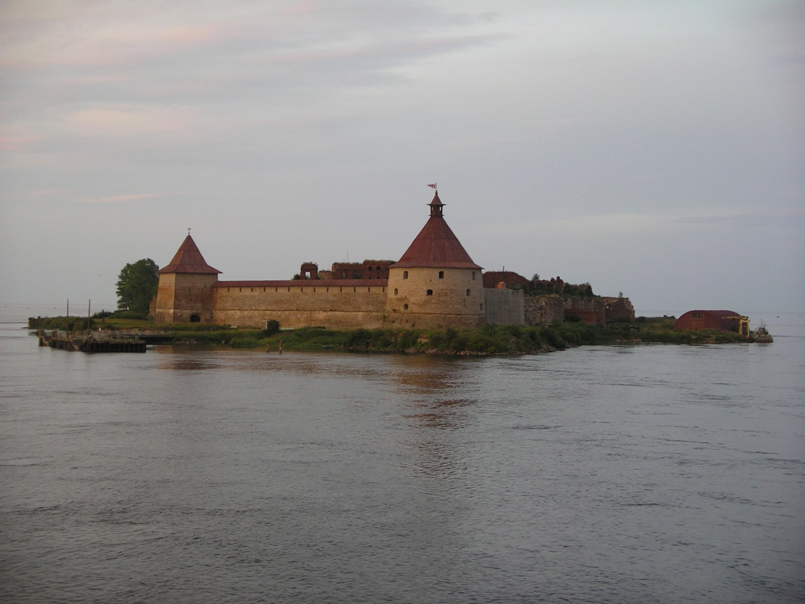 Fortress Oreshek